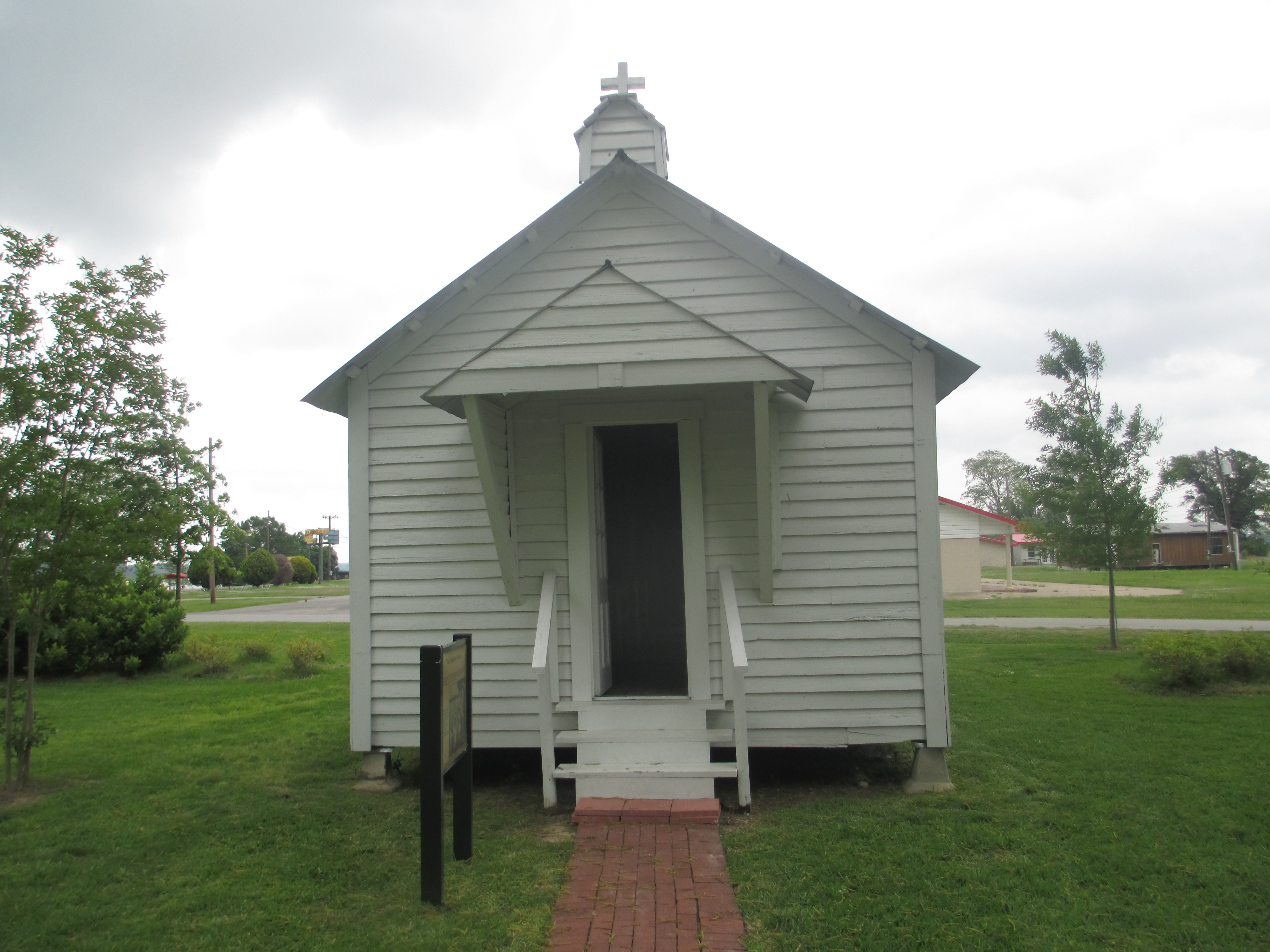 I took photo of sharecroppers' chapel on exhibit at Louisiana State Cotton Museum in Lake Providence, LA, with Canon camera.